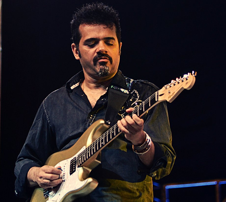 Ehsaan Noorani performing with Shankar-Ehsaan-Loy trio at Idea Rocks India concert at NICE Grounds in Bangalore, Karnataka, India. (Photo - Jim Ankan Deka)